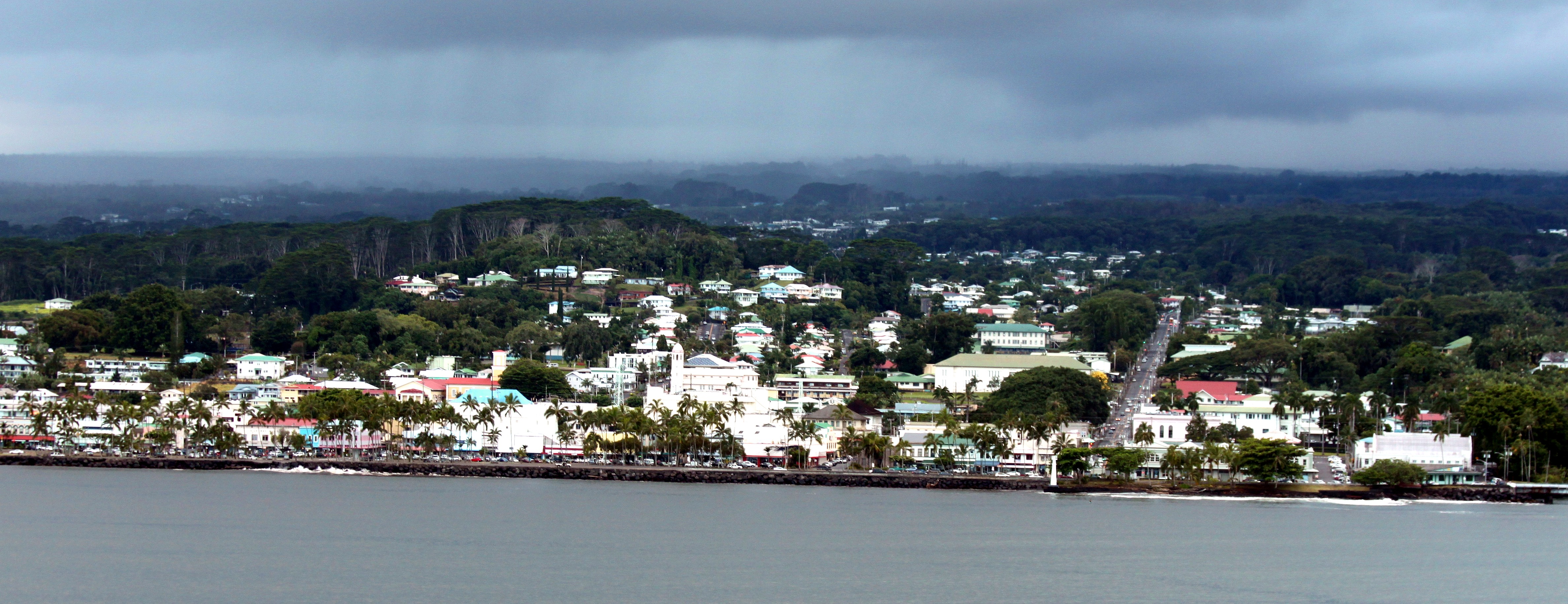 HILO, Big Island Hawaii